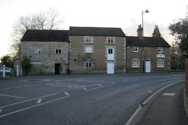 Baldock's Mill, Bourne. This old watermill was built around 1800, went out of use when the waterwheel broke in 1925, now Bourne's museum and heritage centre and the waterwheel has now been replaced.